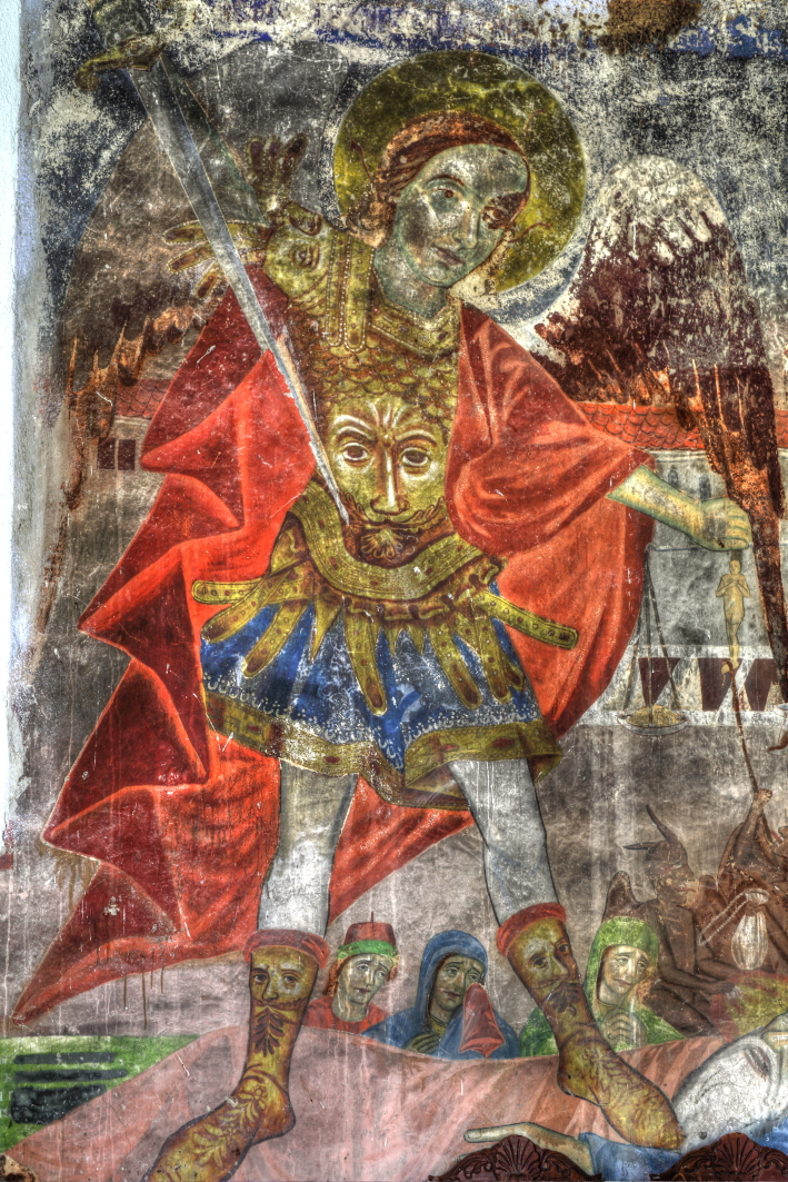 Saint_Athanasius_Church_Angistro_Sengelovo_Fresco